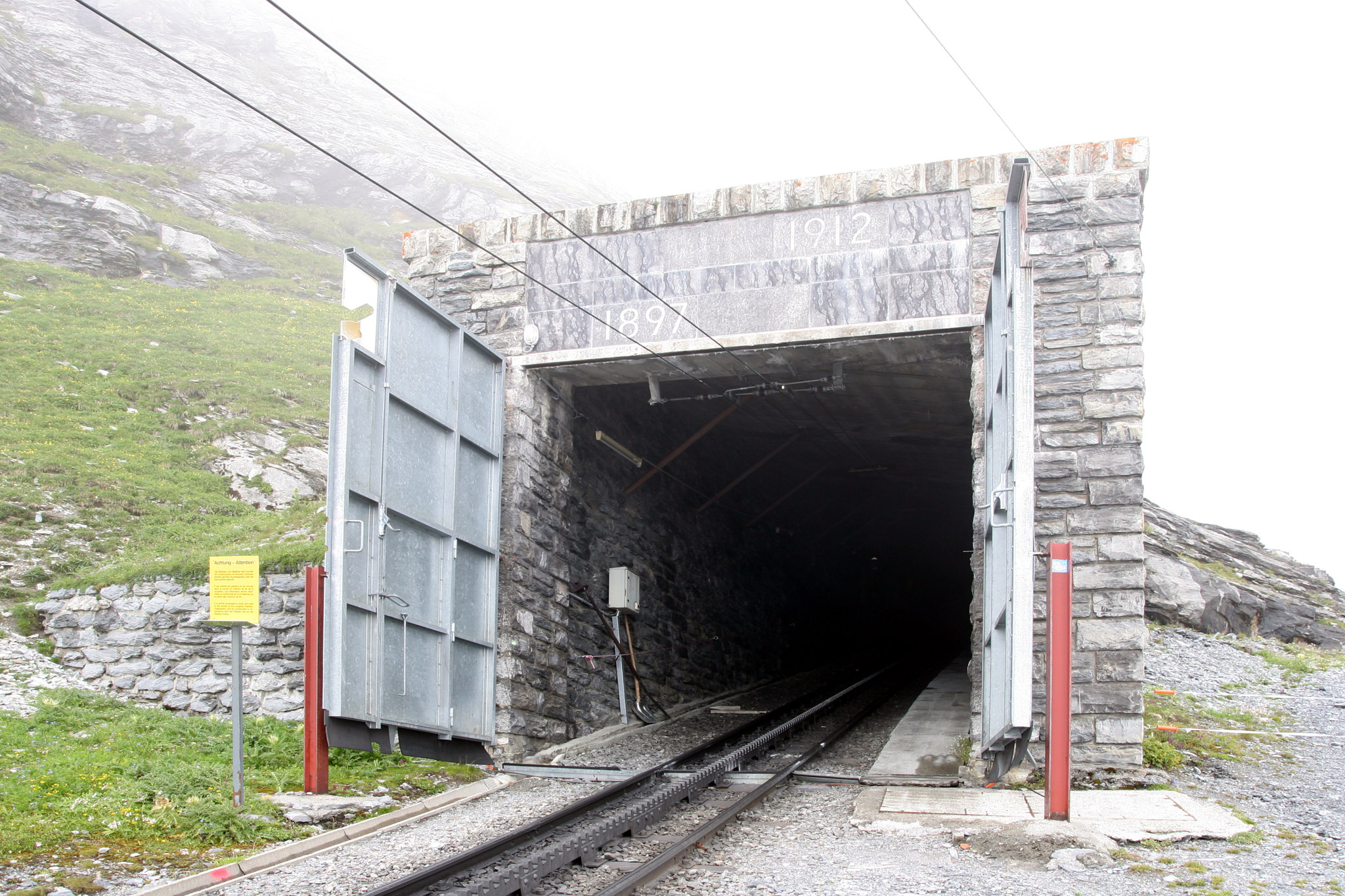 The entrance to the Grosser Tunnel at the station Eigergletscher from the Jungfraubahn in Switzerland.